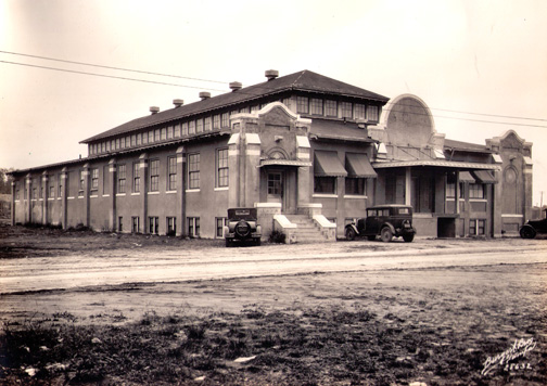 Thompson Cigar Factory historic building is listed on the National Registry of Historic Places, and was the first mechanized cigar factory in Florida. Originally constructed in 1925, at its height of production, this factory rolled 120,000 cigars a day.